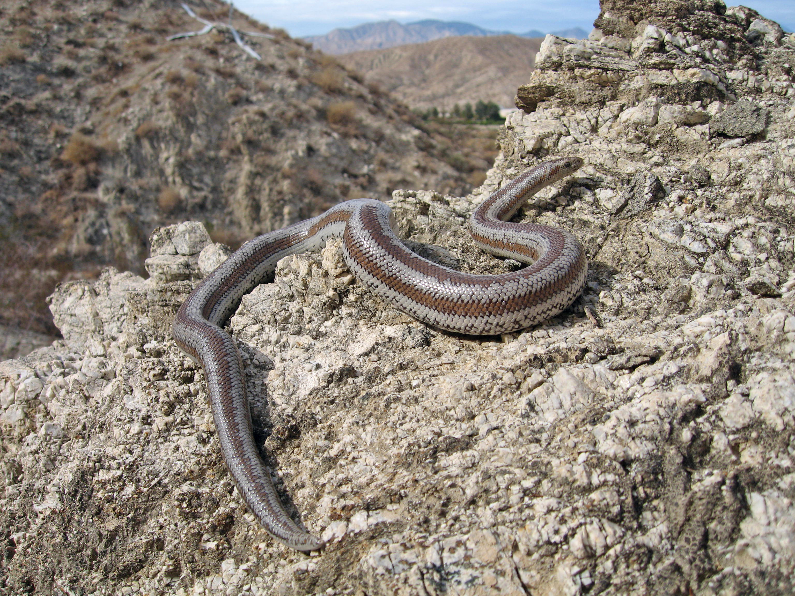 Reptiles of Joshua Tree National Park: Rosy boa (Lichanura trivirgata)